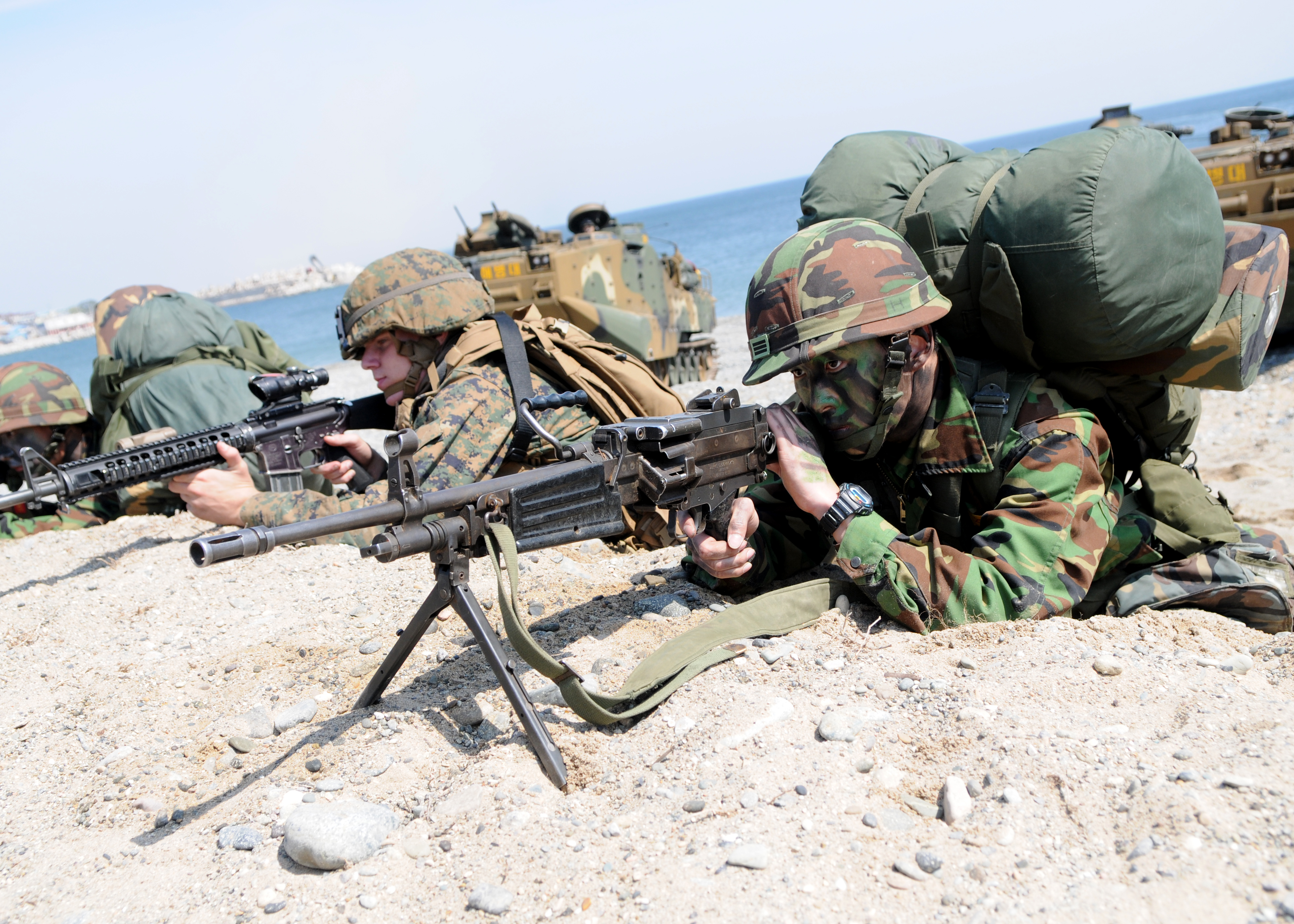 Rep. of Korea Marine Corps SSang Yong 12 Exercise 2012년 3월 포항에서 한국 해병대와 미국 해병대가 연합상륙훈련을 실시하였습니다.